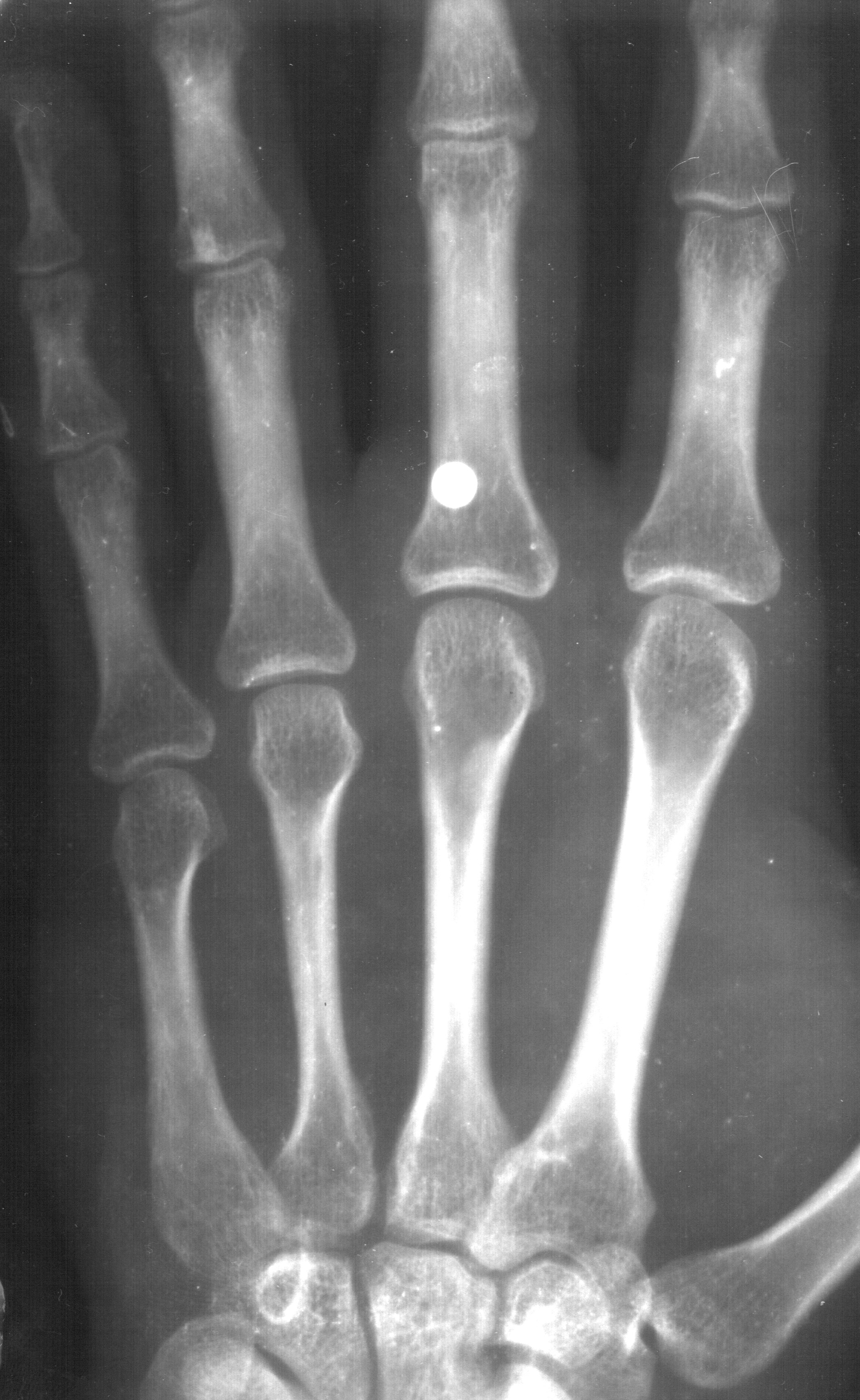 Steel BB pellet injury: 4.5 mm bullet hit a bone of left hand.